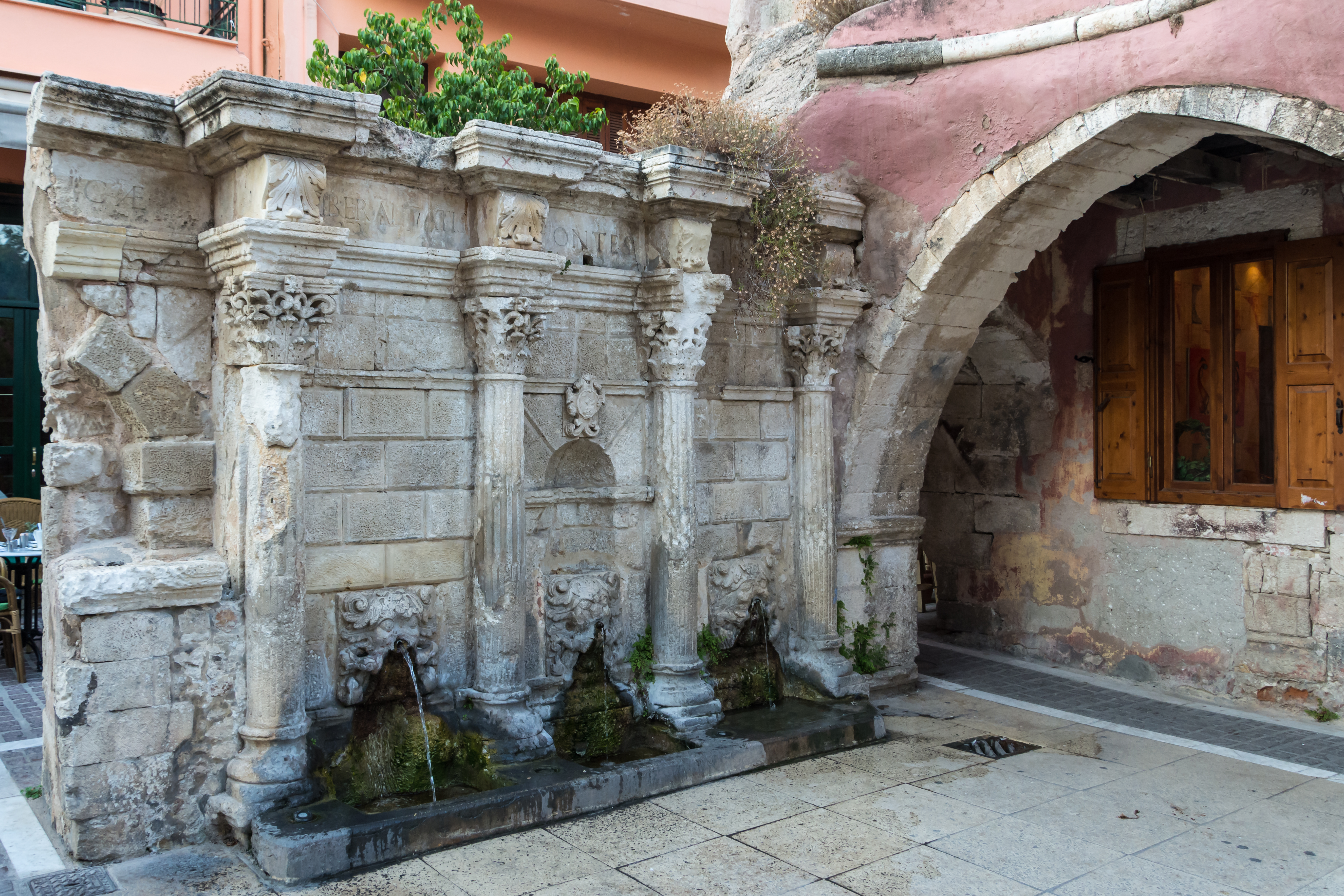 Rimondi Fountain in Rethymno, Crete